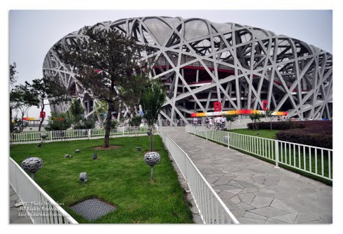 Chaoyang Beijing